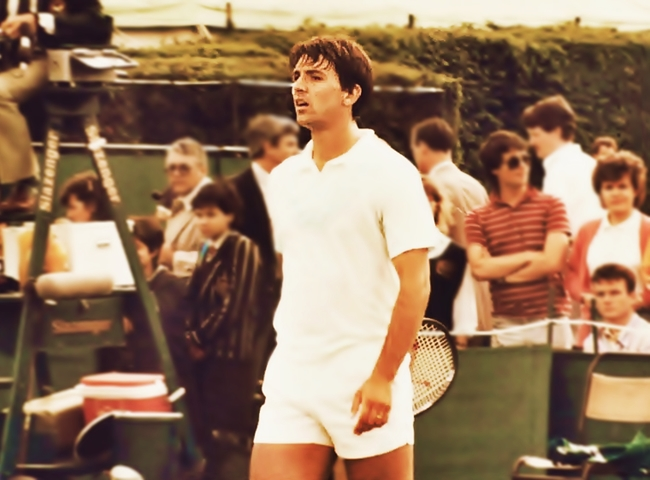 Zivojinovic at Wimbledon in the mid 1980s. Reproduction from original print.